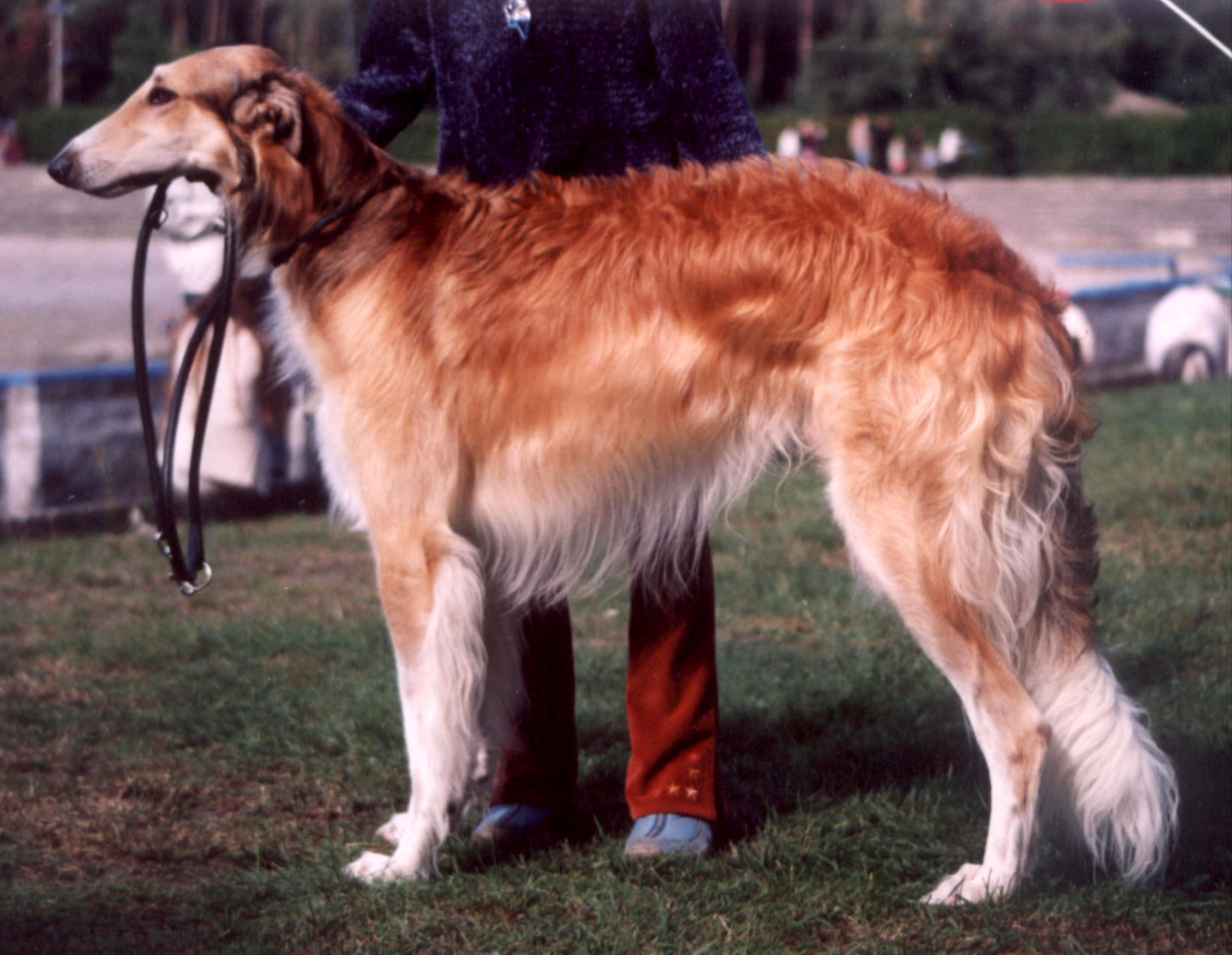 author: Pleple2000